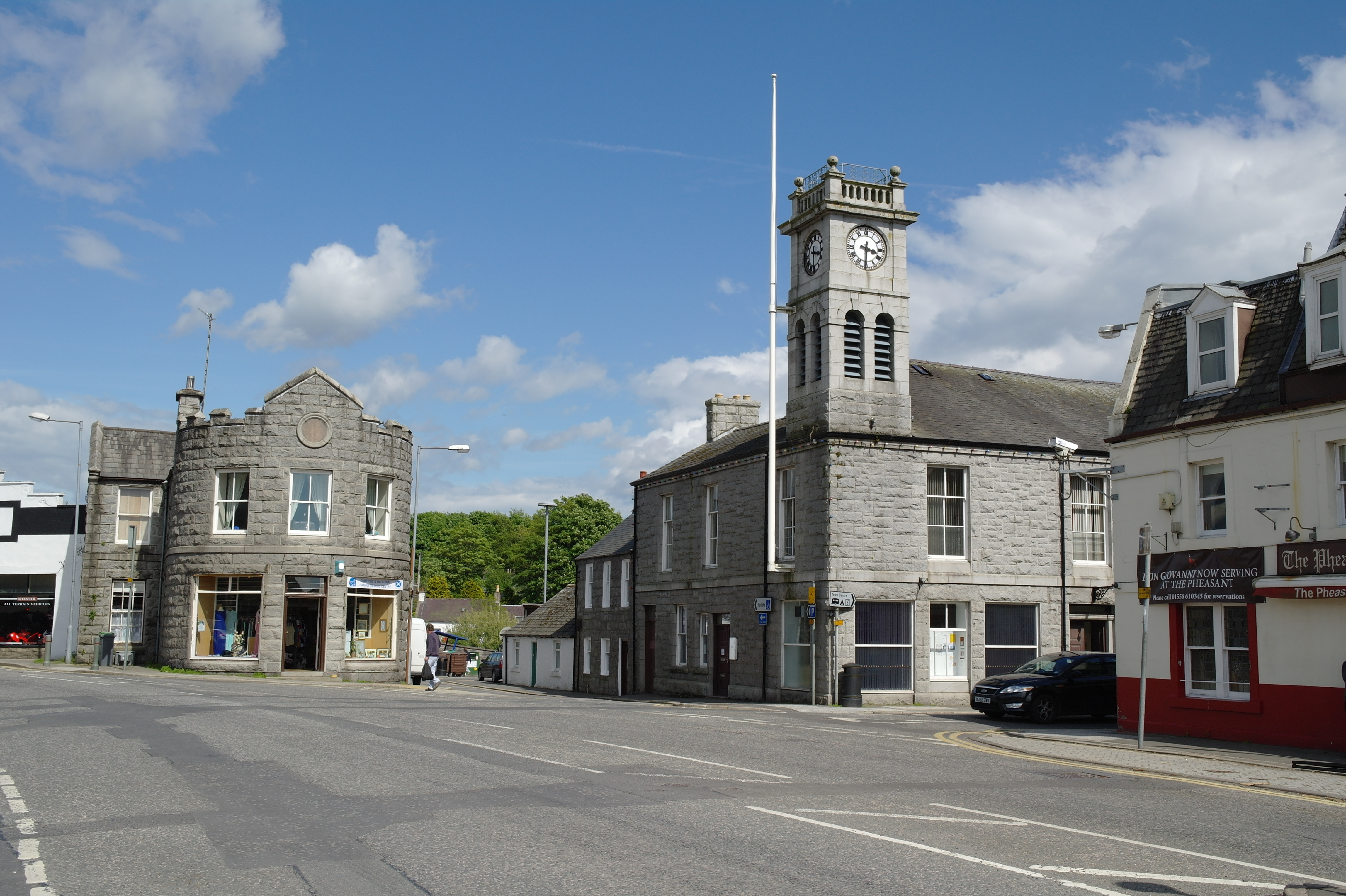 The Town Hall and Roundhouse in Dalbeattie.